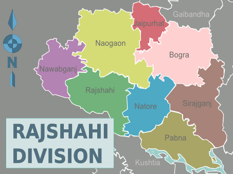 Colour-coded map of the districts of Rajshahi Division in Bangladesh (Wikivoyage regional scheme), English version